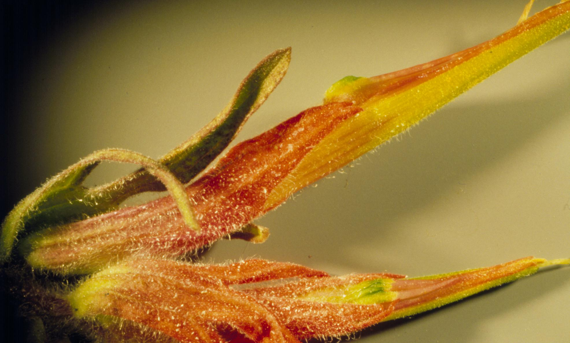 Flowers attached to subtending bracts. The upper flower is viewed from the side but shows the lower (dorsal) calyx split. The lower flower is viewed from the lower (dorsal) side and shows a split in the calyx that is similar in length to that along the upper side.